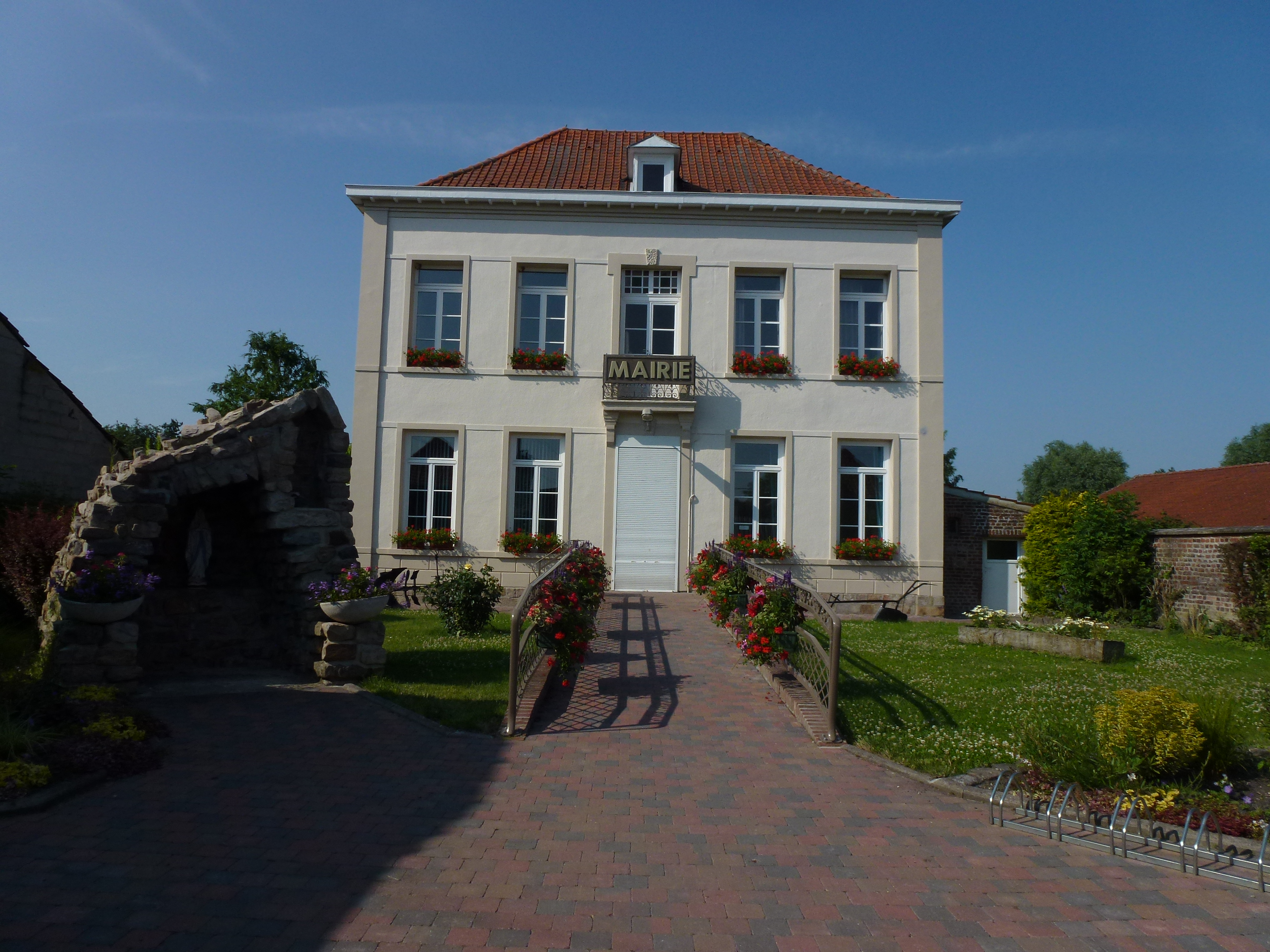 Warlaing (Nord, Fr) mairie